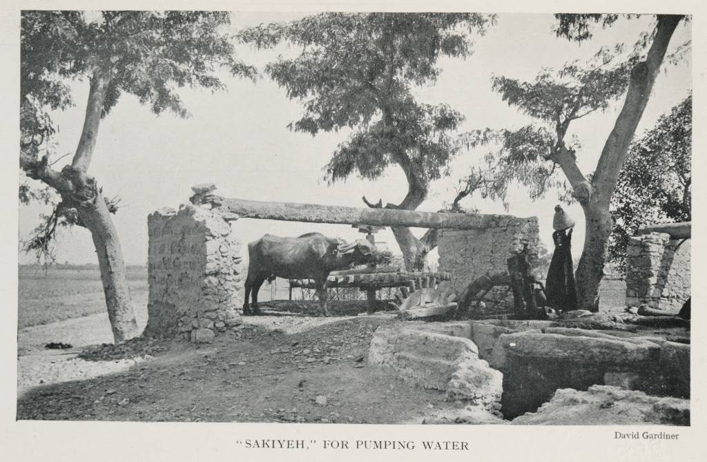 An ox stands at a large geared mechanism used to pump water.